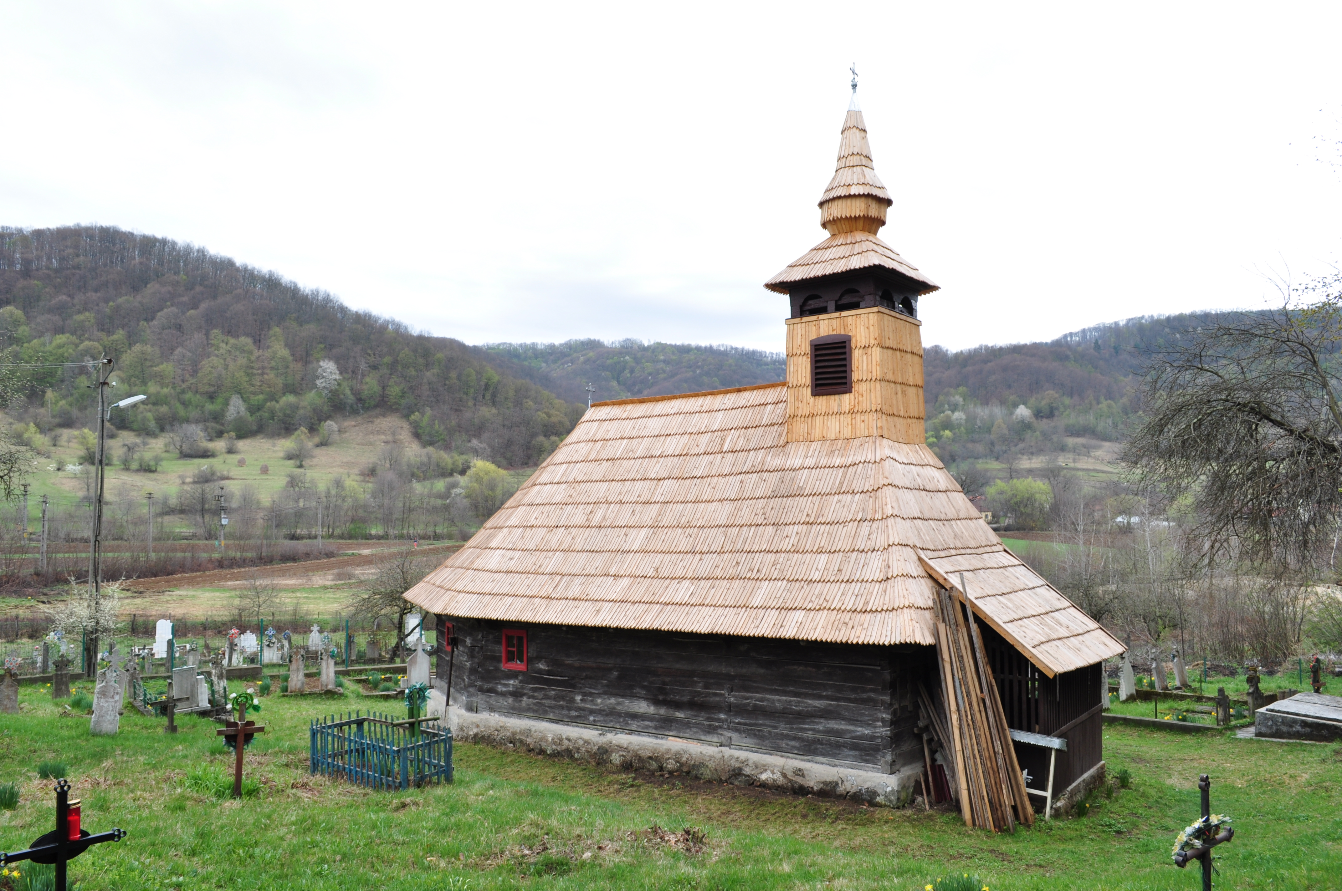 The wooden church in Cerbia, Hunedoara county